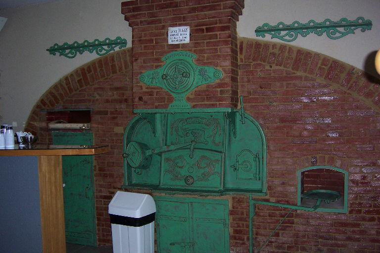 Old baker's oven in hospital of Montfaucon in Lot, France.